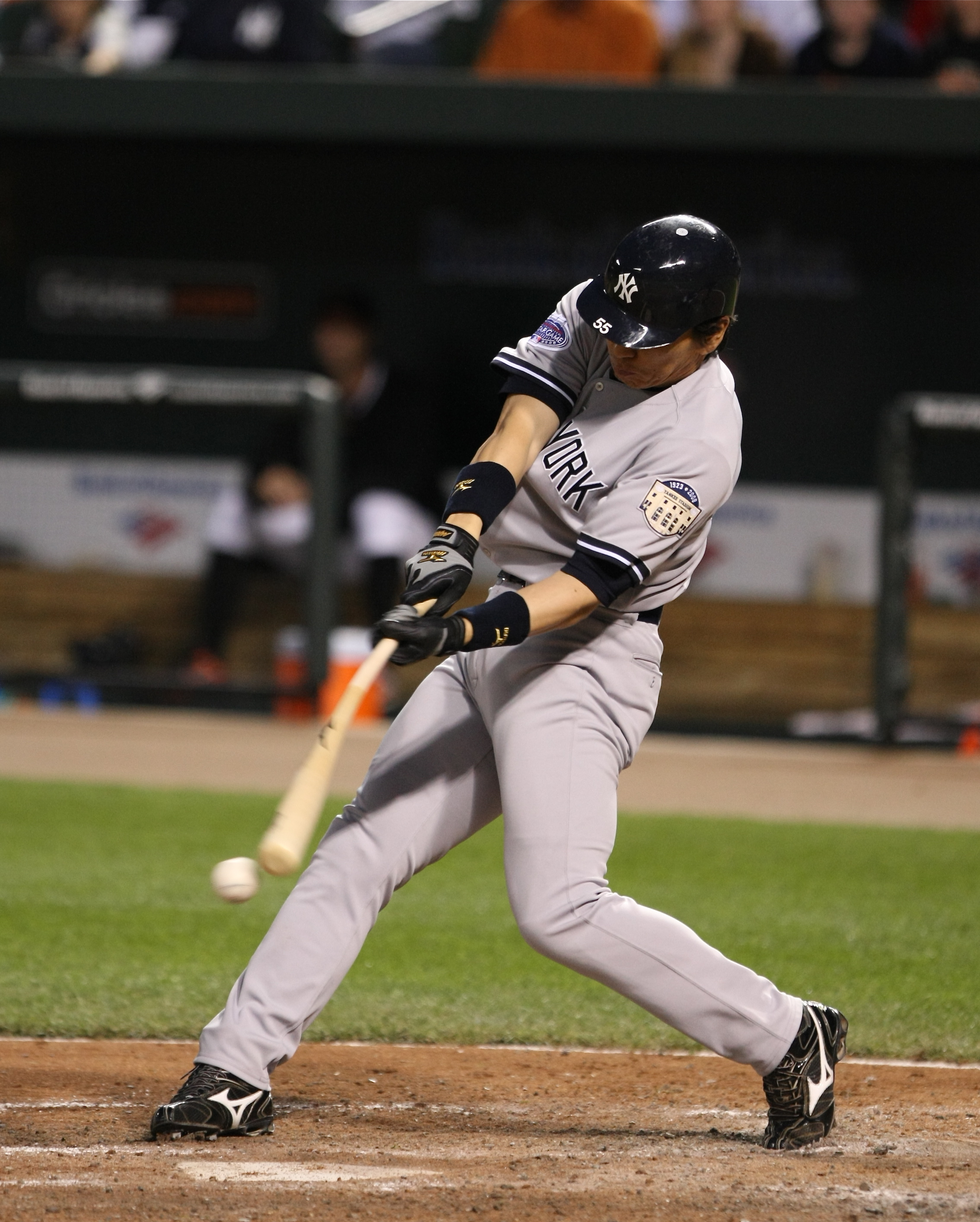 Hideki Matsui Reprint from Flickr